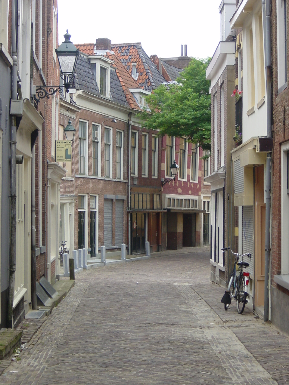 A street in the city of Leeuwarden, the Netherlands. Taken by me in 2003.